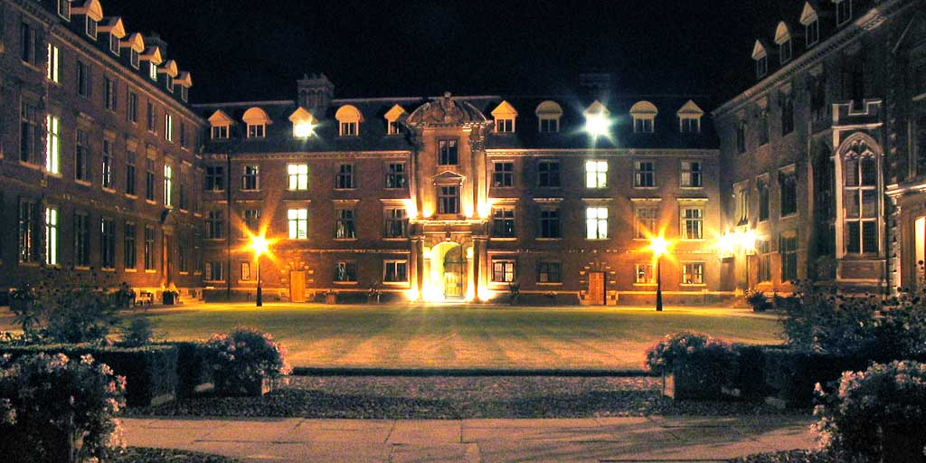 St Catharine's College, Cambridge